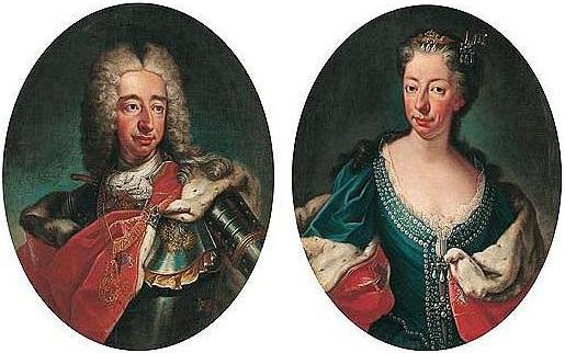 Portrait of Vittorio Amedeo II and Anne Marie d'Orléans